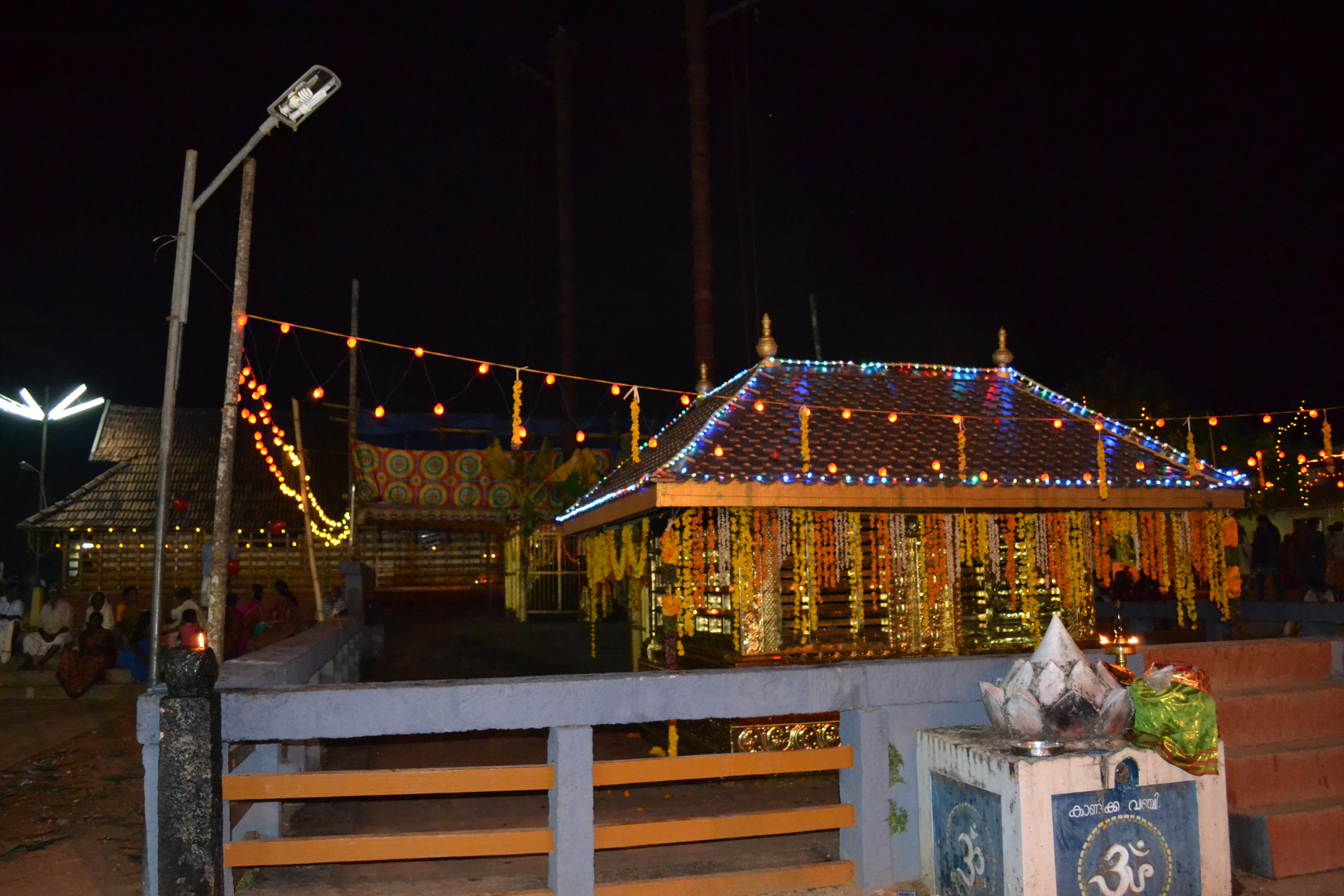 kalanjoor sivatemple festival ,pathanamtitta